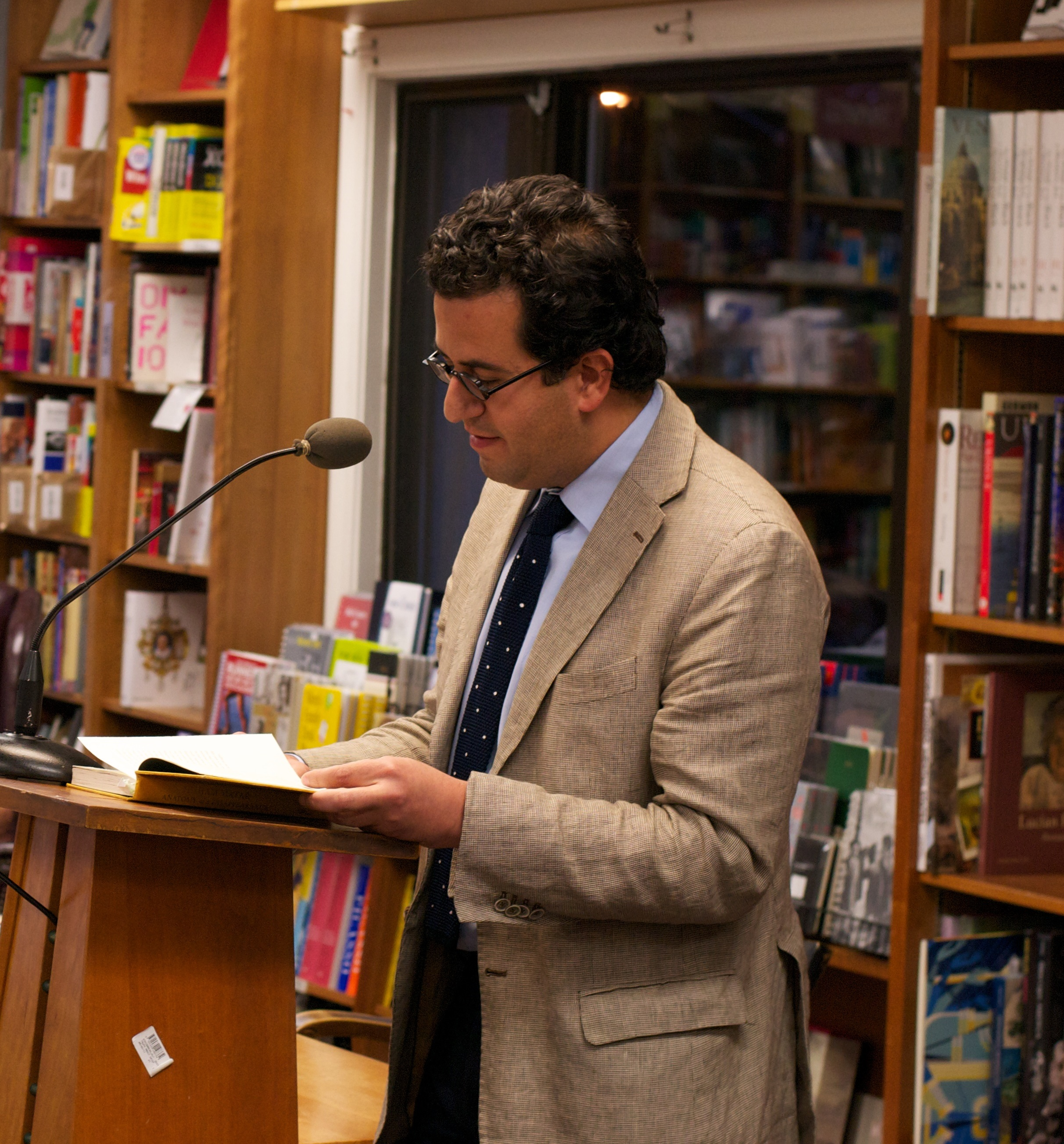 Libyan writer Hisham Matar, discussing Anatomy Of A Disappearance in the Politics and Prose bookstore in Washington D.C.